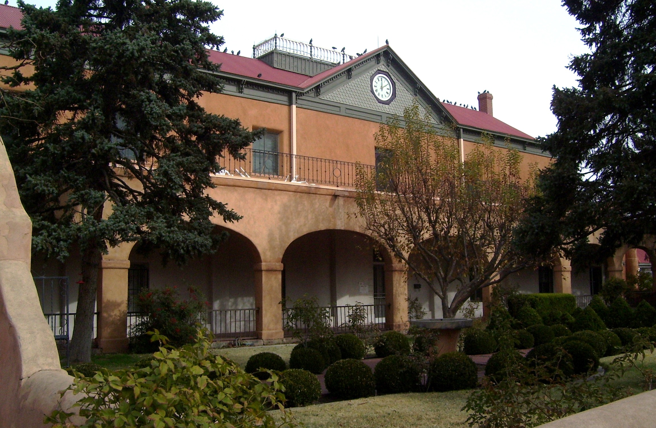 San Felipe de Neri Church, the mission church on the plaza of Albuquerque Old Town.